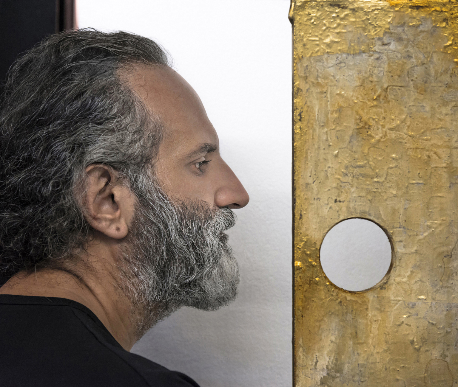 Photographic portrait of Italian artist Andrea Nurcis taken in 2015.